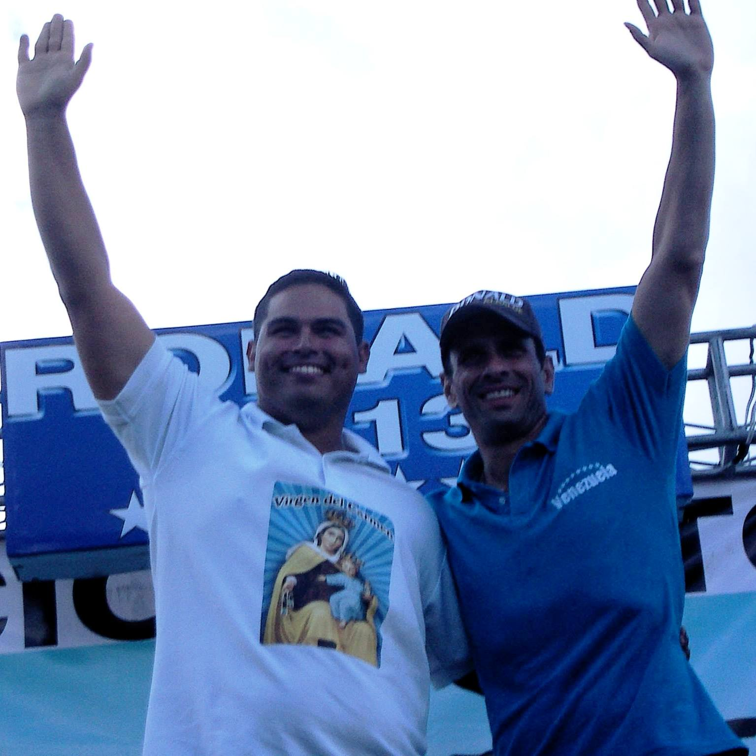 Socopó mayor Ronald Aguilar, the governor of Miranda state Henrique Capriles In the campaign for the 2013 mayoral